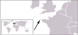 Localisation Ouessant, France This map shows the location of Ushant Island off the coast of Brittany. Author : Pline photo ou réalisation (schéma) personnelle